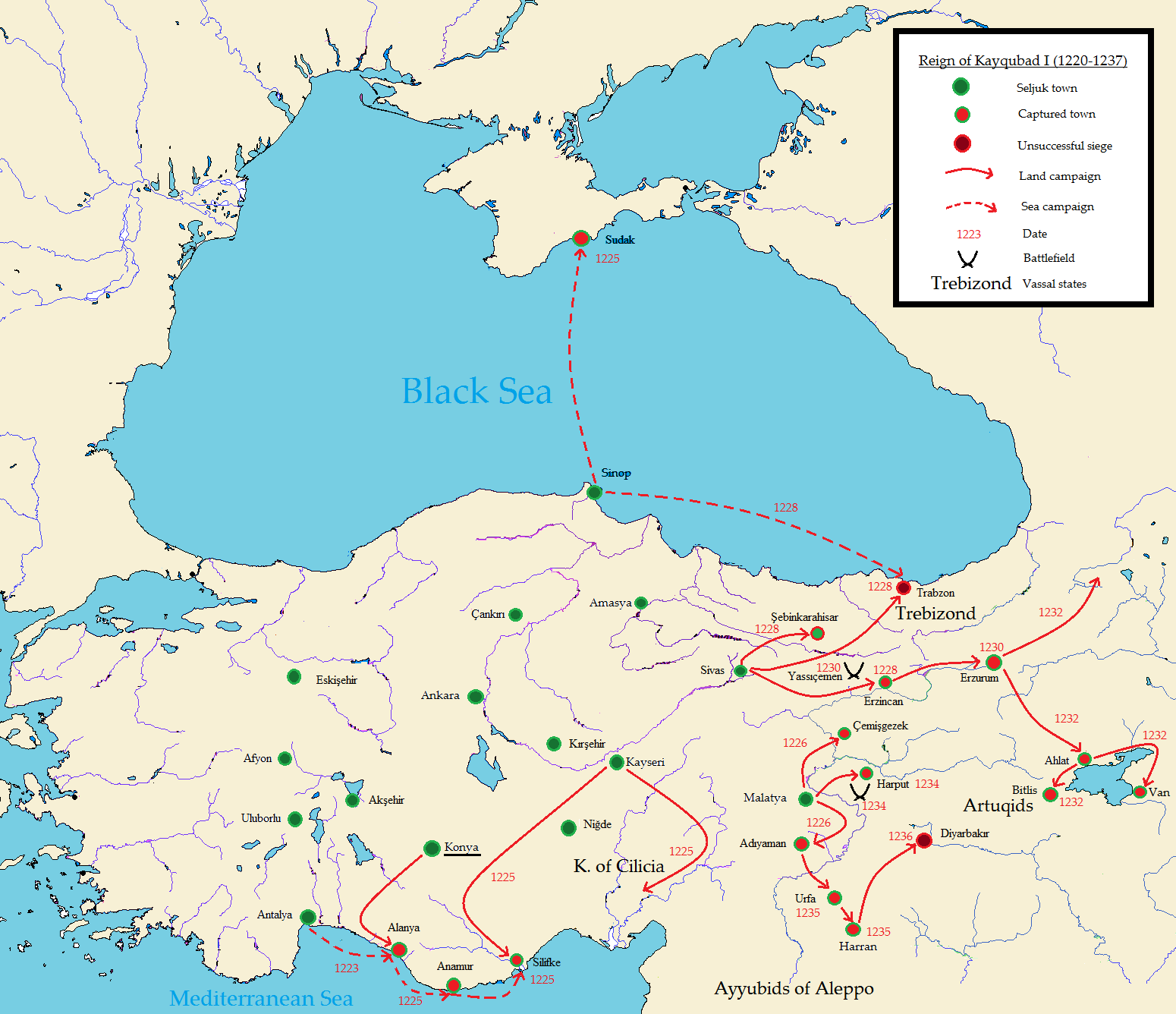 Map of the Seljuk Sultanate during the reign of Kayqubad I (1220-1237) showing the military campaigns, battles, captured towns, vassal states and sieges with dates. I used various sources: DOĞUŞTAN GÜNÜMÜZE BÜYÜK İSLAM TARİHİ ANADOLU TÜRK DEVLETLERİ 8. CİLT, ÇAĞ YAYINLARI, 1988, page 148, 282-297 The Cambridge History of Islam:, Cambridge University Press, 1977[1] Maps used: File:PonticKingdom.png